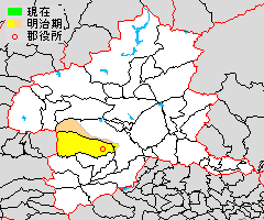 Map showing extent of former Usui District, Gunma, Japan